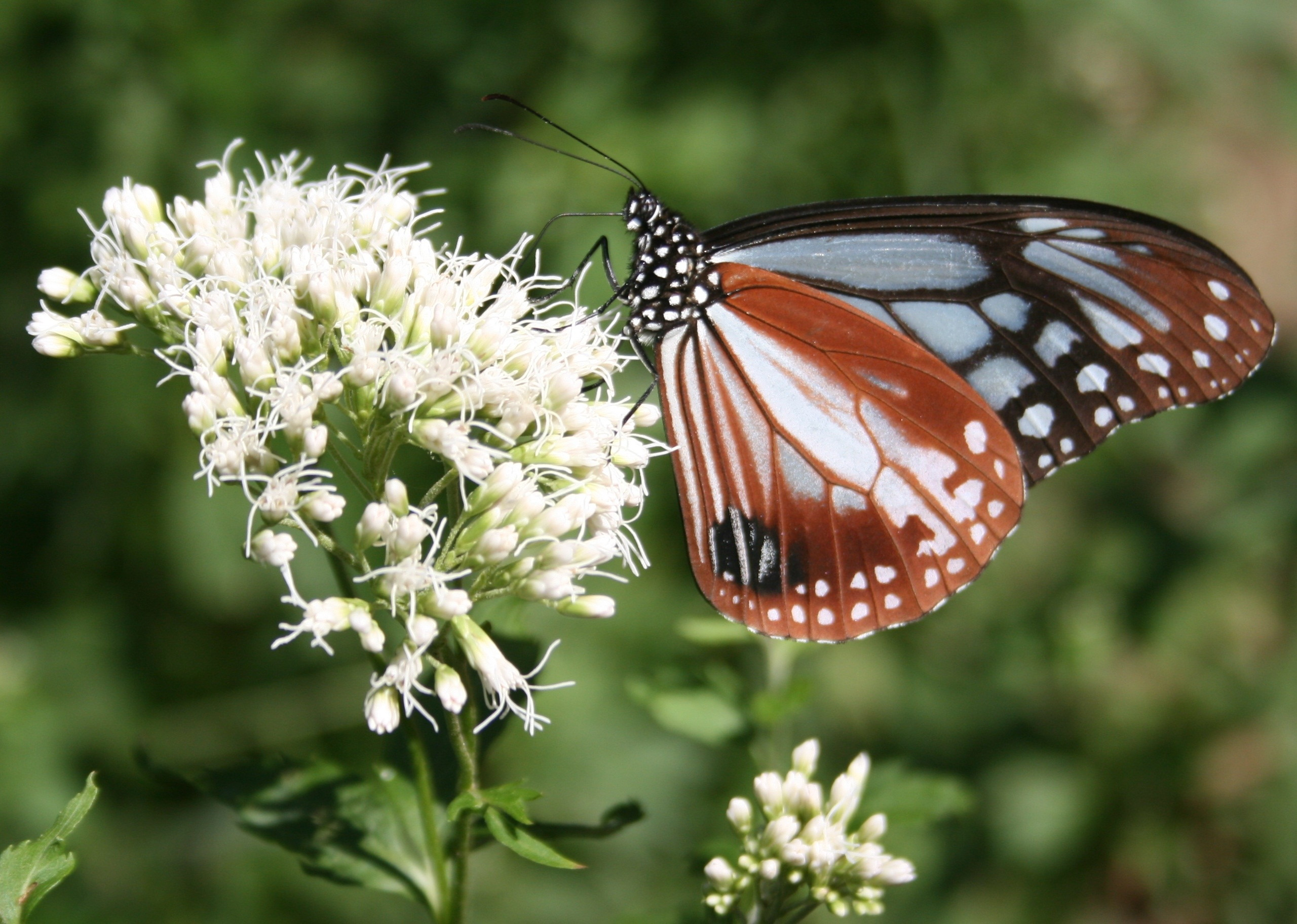 Parantica sita ssp. niphonica on Eupatorium japonicum